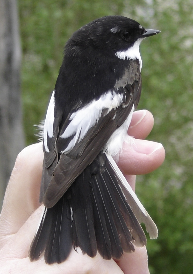 Young male european pied flycatcher (Ficedula hypoleuca) in spring.